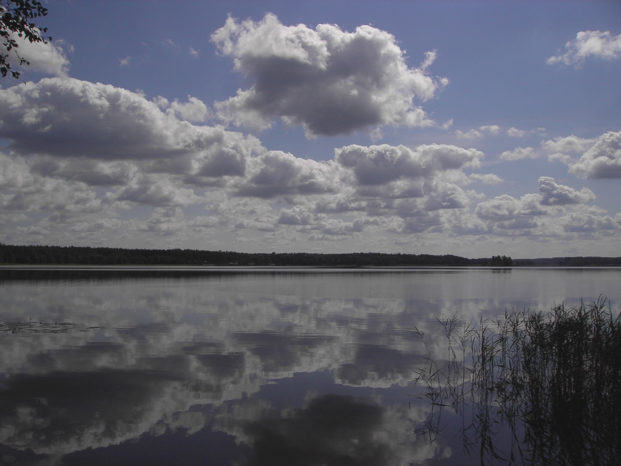 Lake Baluošas, Ignalina district, Lithuania